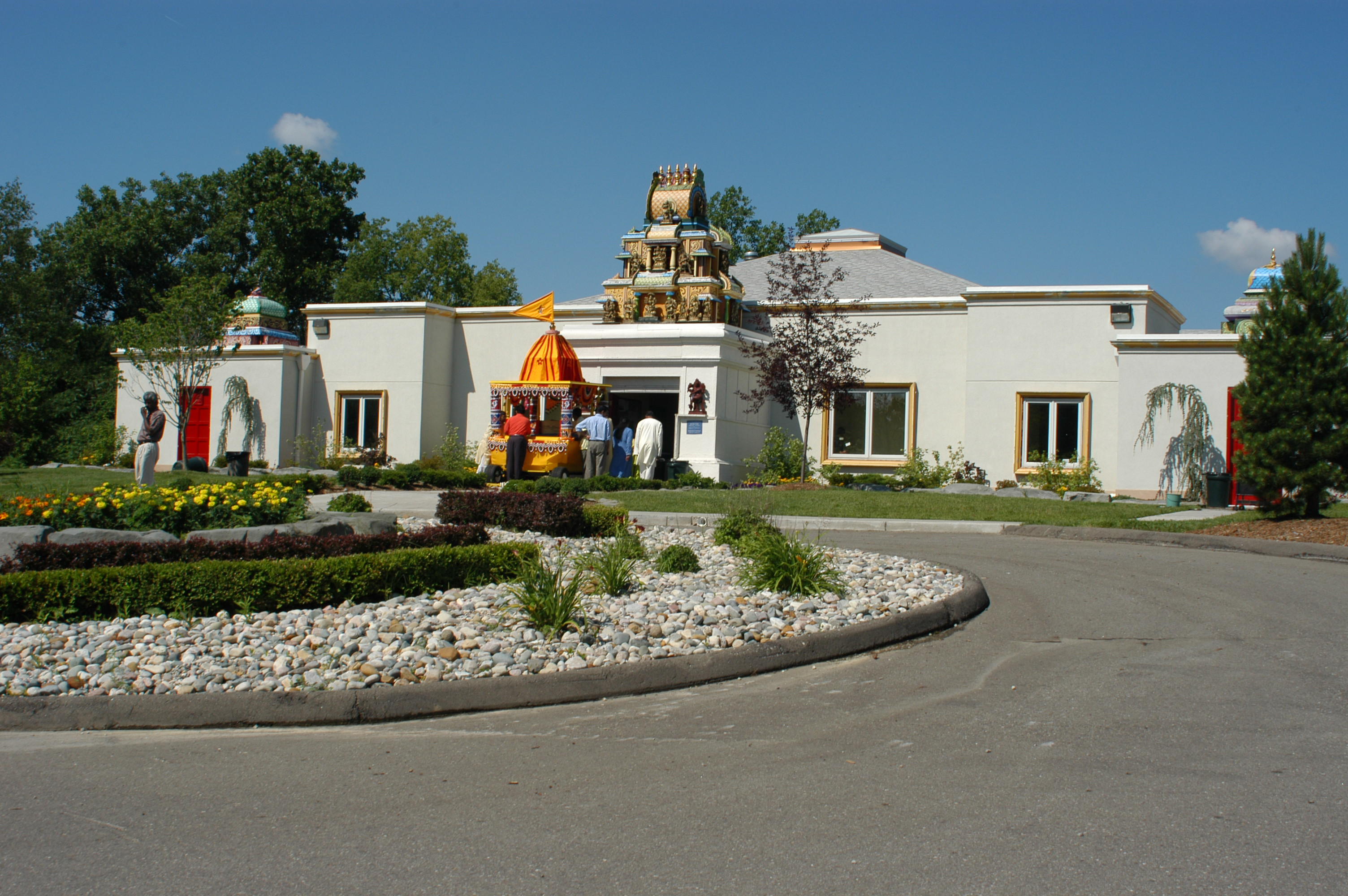 Picture taken outside Parashakthi Temple